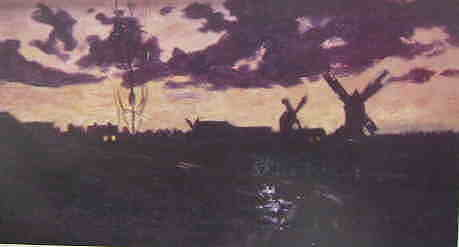 "Natt i Önningeby", oilpainting by Elias Mukka, Finland.